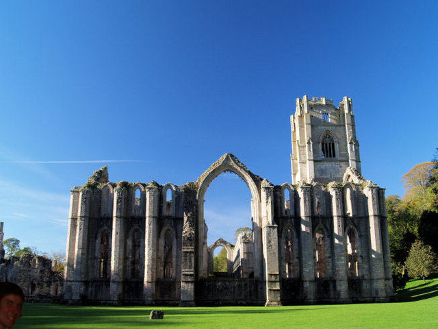 Fountains Abbey.